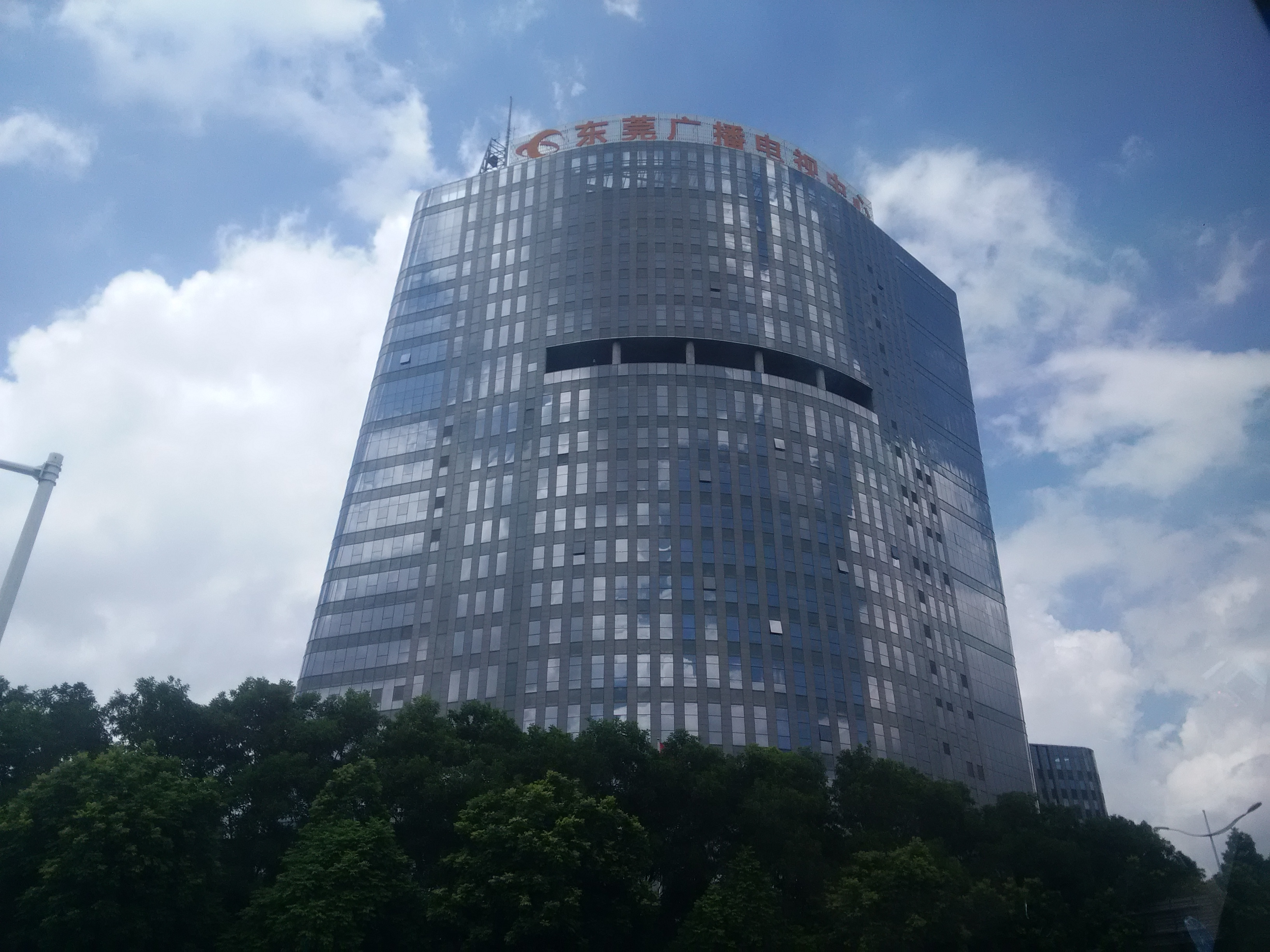 Dongguan Radio Television Center, located at No. 100, Sanyuan Road, Nancheng Street, Dongguan City, Guangdong Province, China.